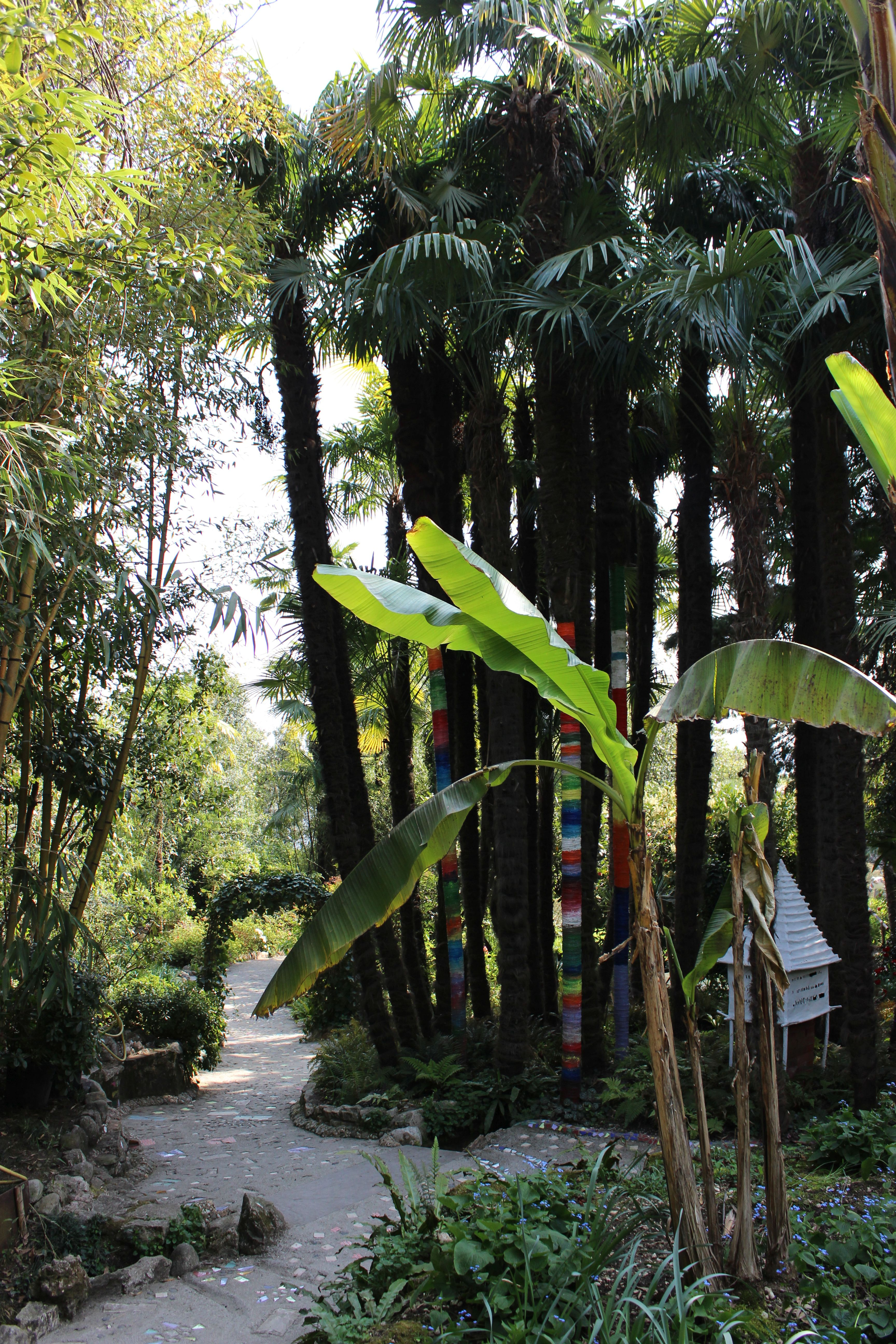 Gardone: Giardino Botanico